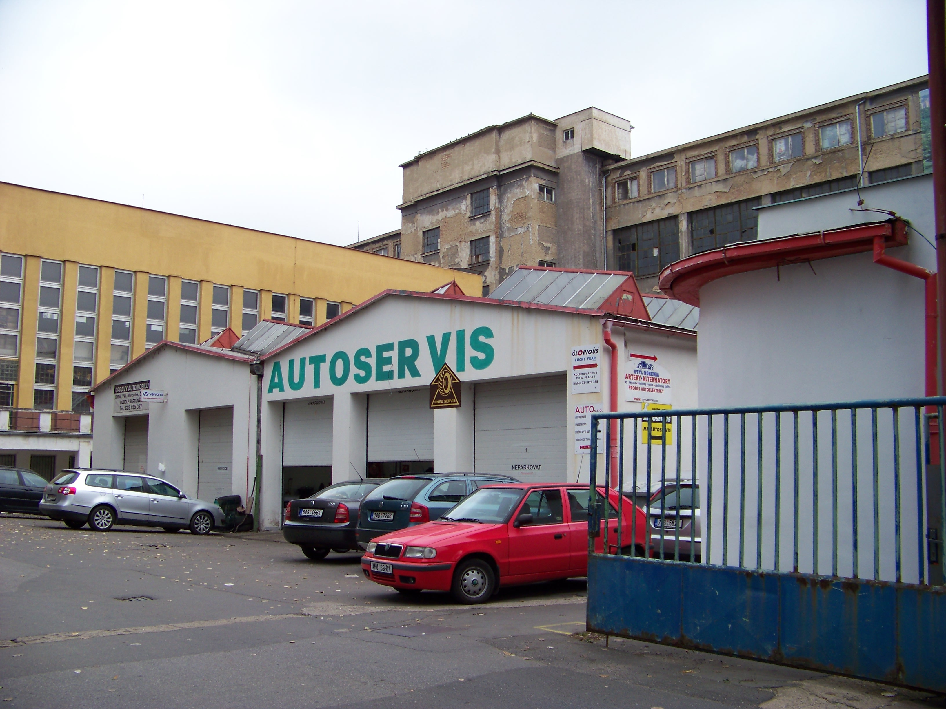 Prague-Vysočany, the Czech Republic. Kolbenova street, an automobile repair shop. - OpenStreetMap(Info)